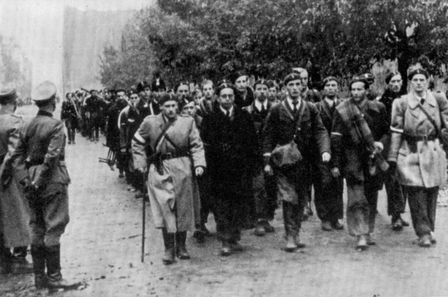 Soldiers of Polish Home Army surrending to German Wehrmacht at the checkpoint in Warsaw, 5th of October 1944